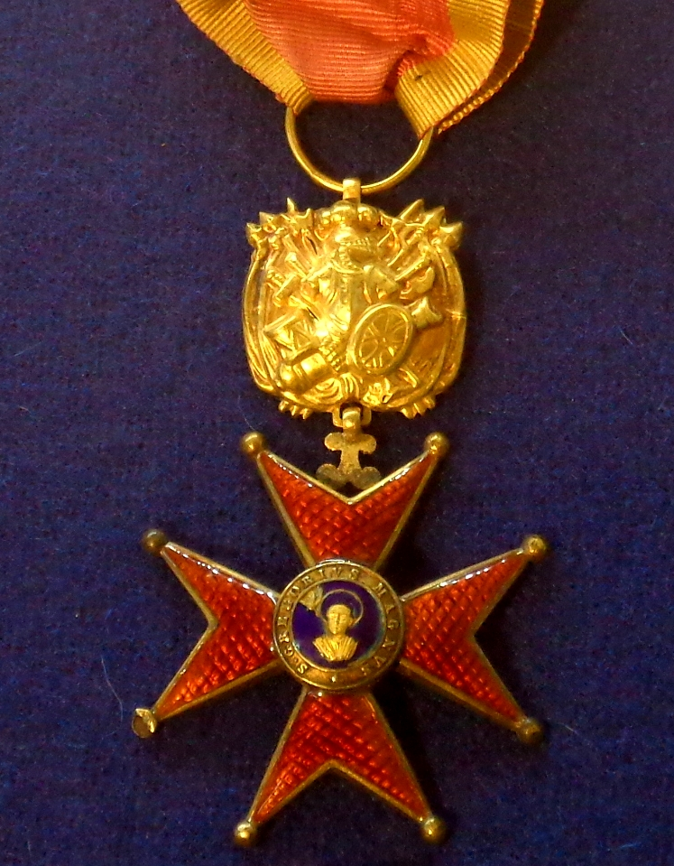 Order of Saint Gregory the Great, Knight's badge, military division. Vatican. The exhibition of the Tallinn Museum of Orders of Knighthood, Estonia.